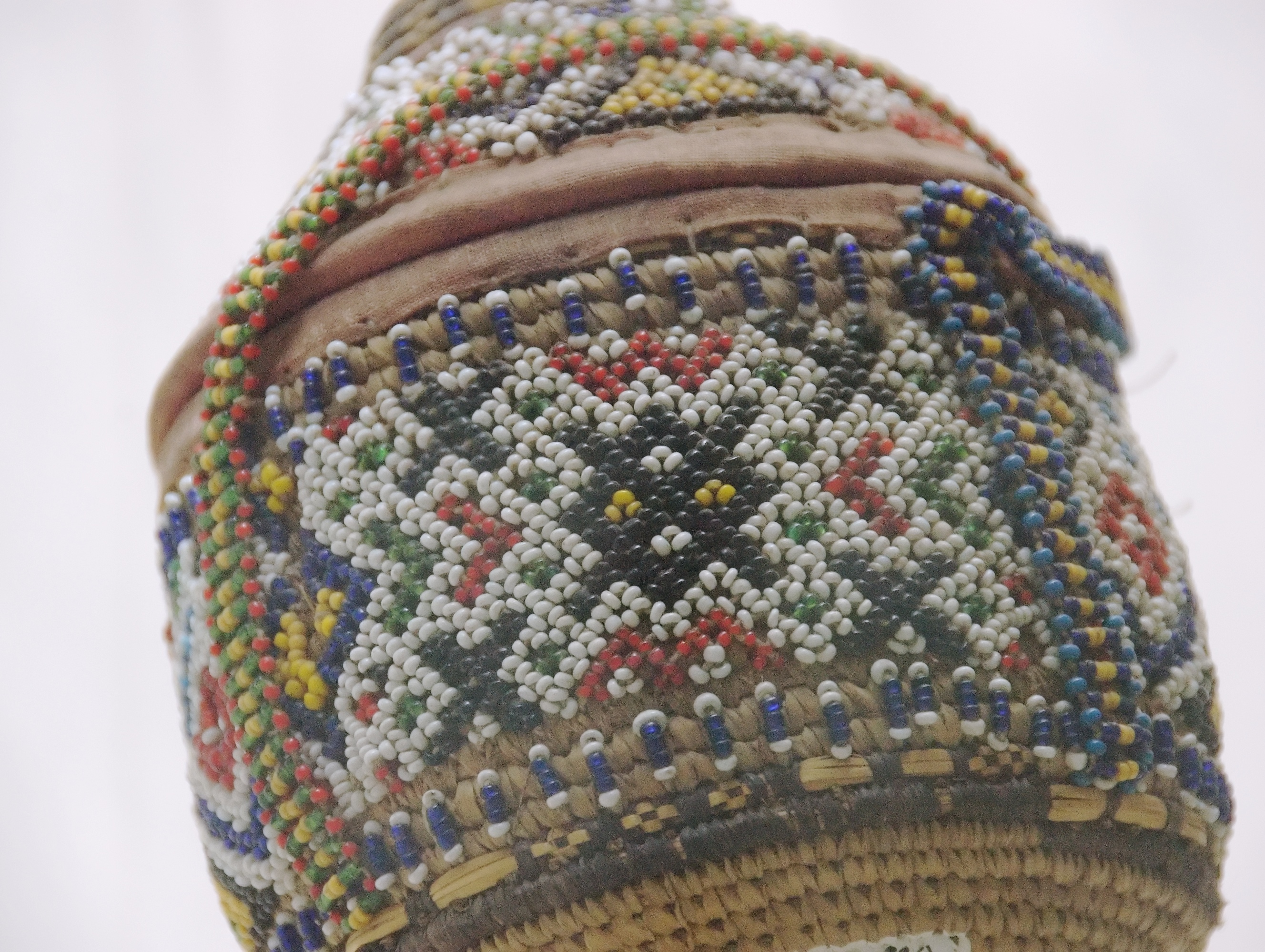 Eye candy! In the ethnographic collection of the National Museum, Addis Ababa, Ethiopia. I've complied with restrictions on the use of flash, and taken photos only when permitted by the museum.